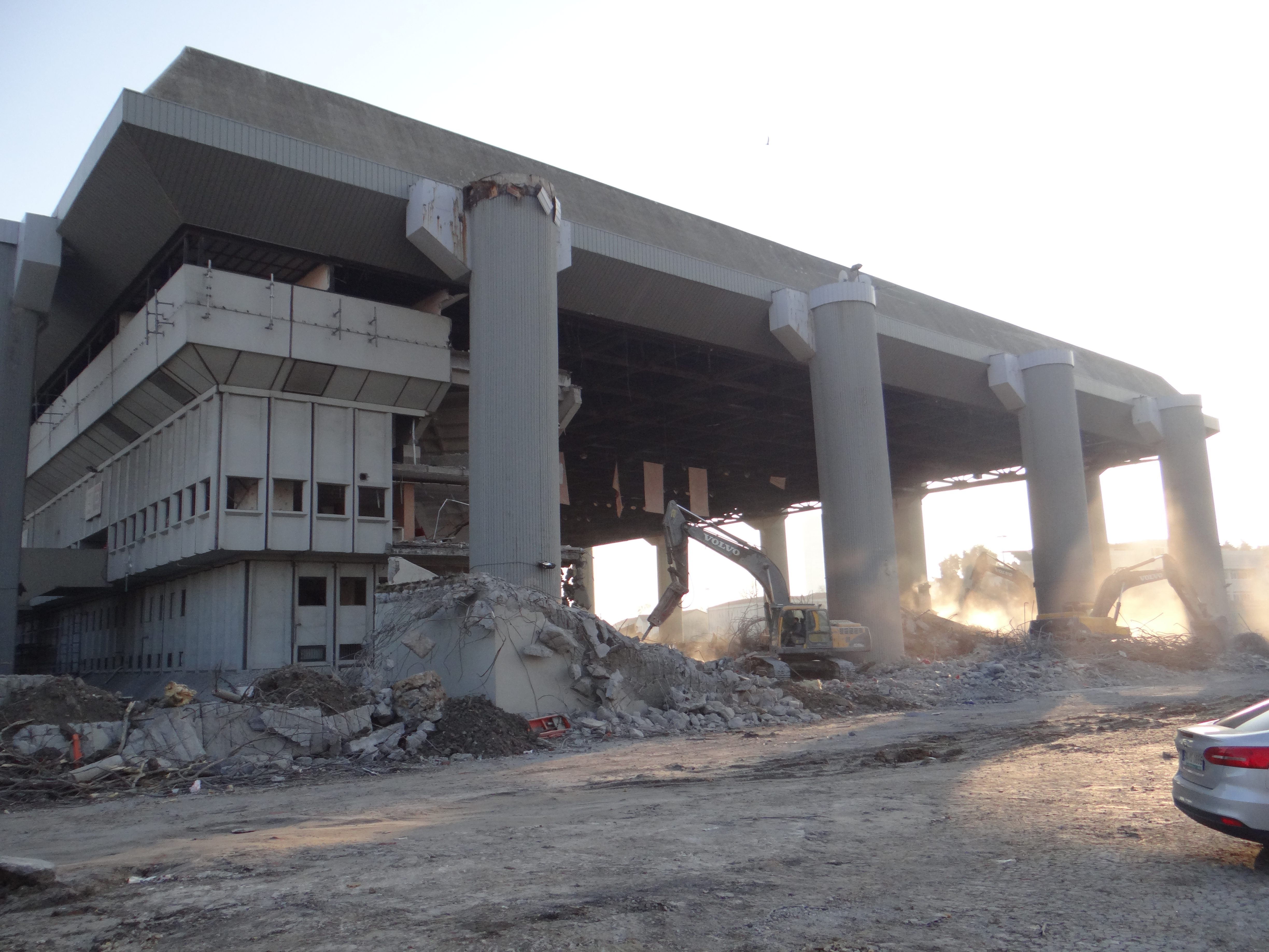 Abdi İpekçi Arena demolition 20180201